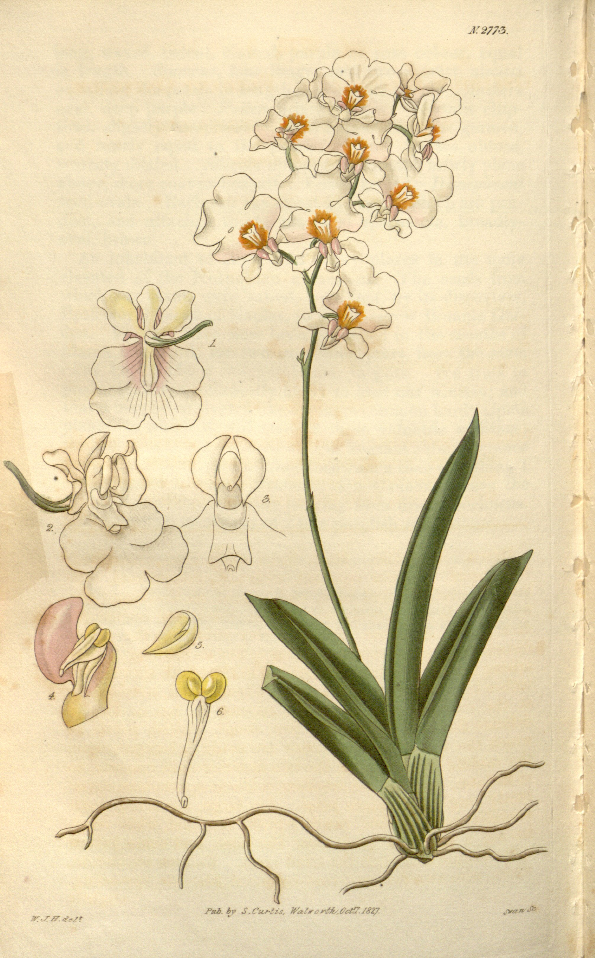 Illustration of Tolumnia pulchella (as syn. Oncidium pulchellum)